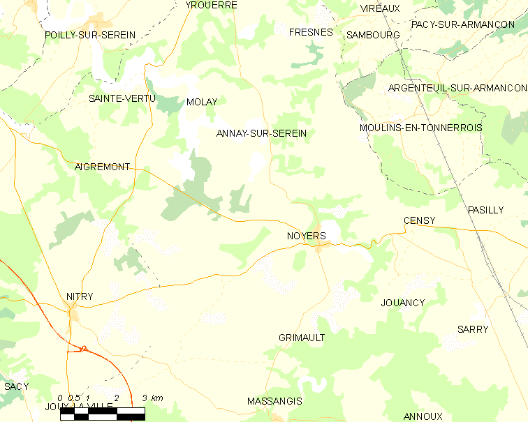 Map of French municipality Noyers